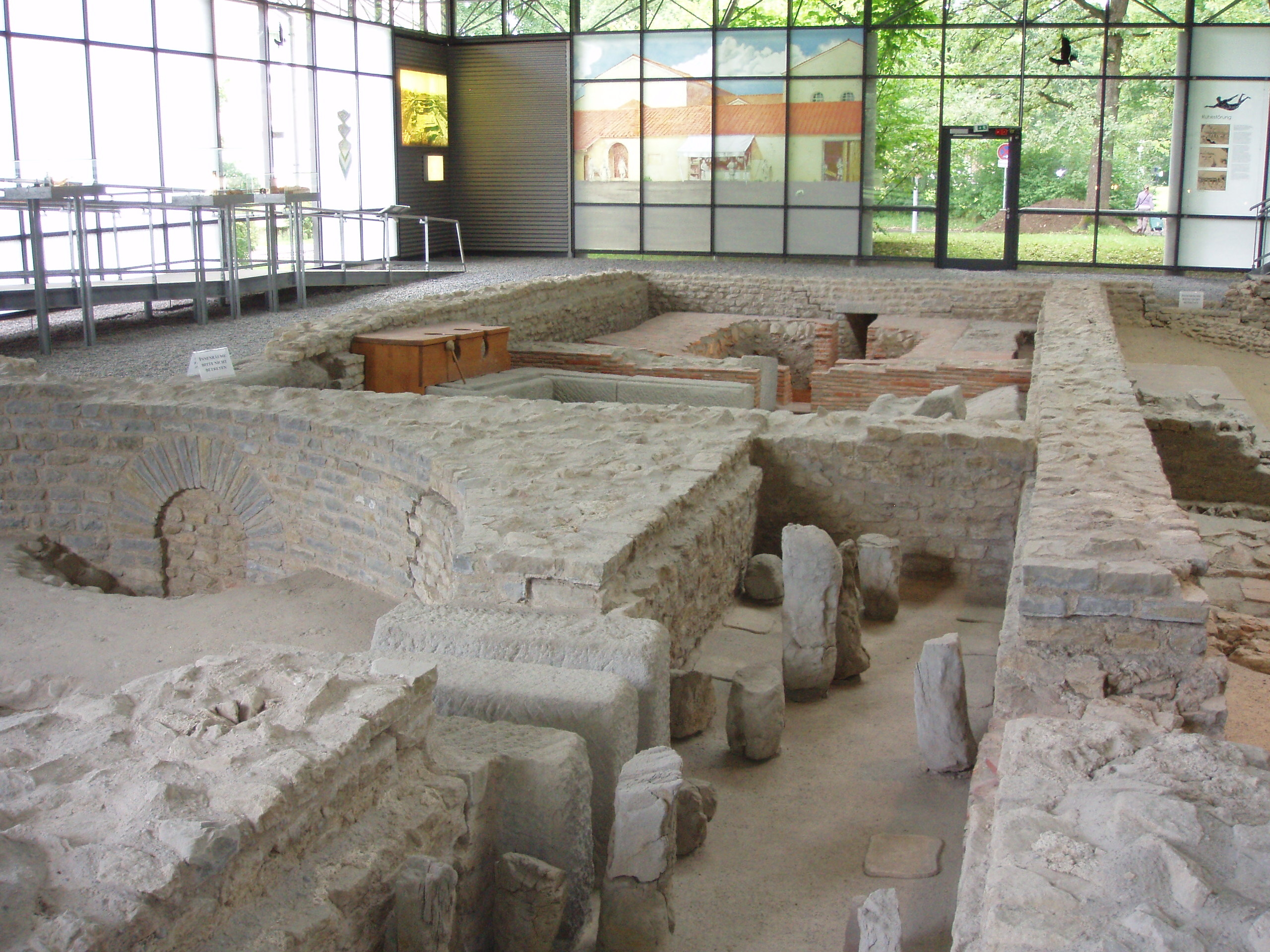 Cambodunum Thermae